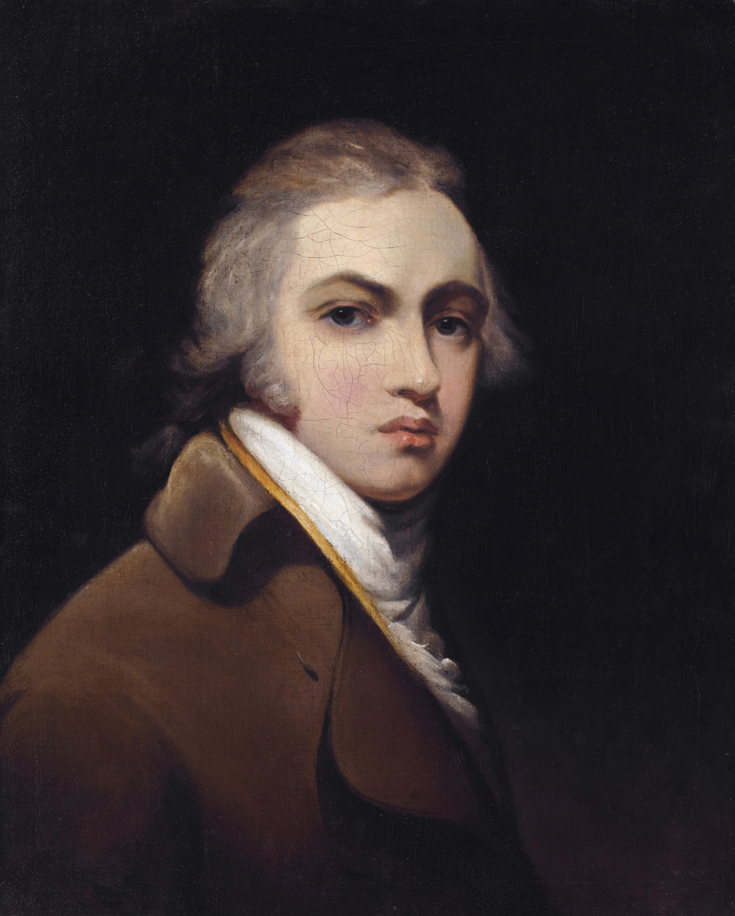 Self-portrait of Sir Thomas Lawrence (1769-1830)